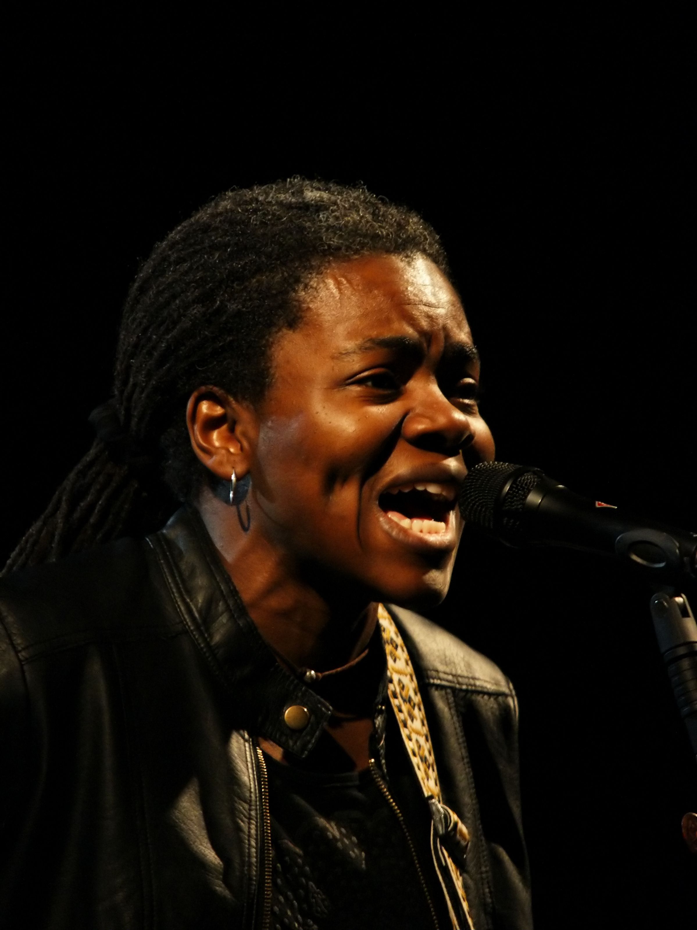 Tracy Chapman at the 2009 Cactus Festival in Bruges, Belgium.